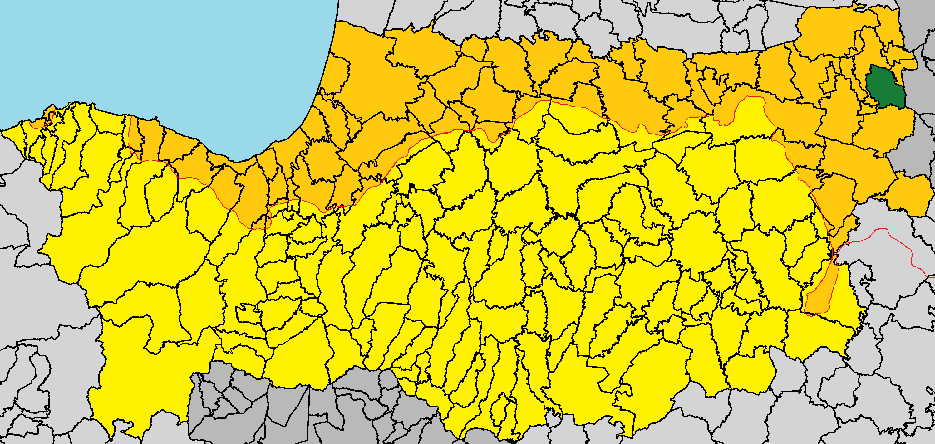 Exometochi in Nicosia District (de jure).